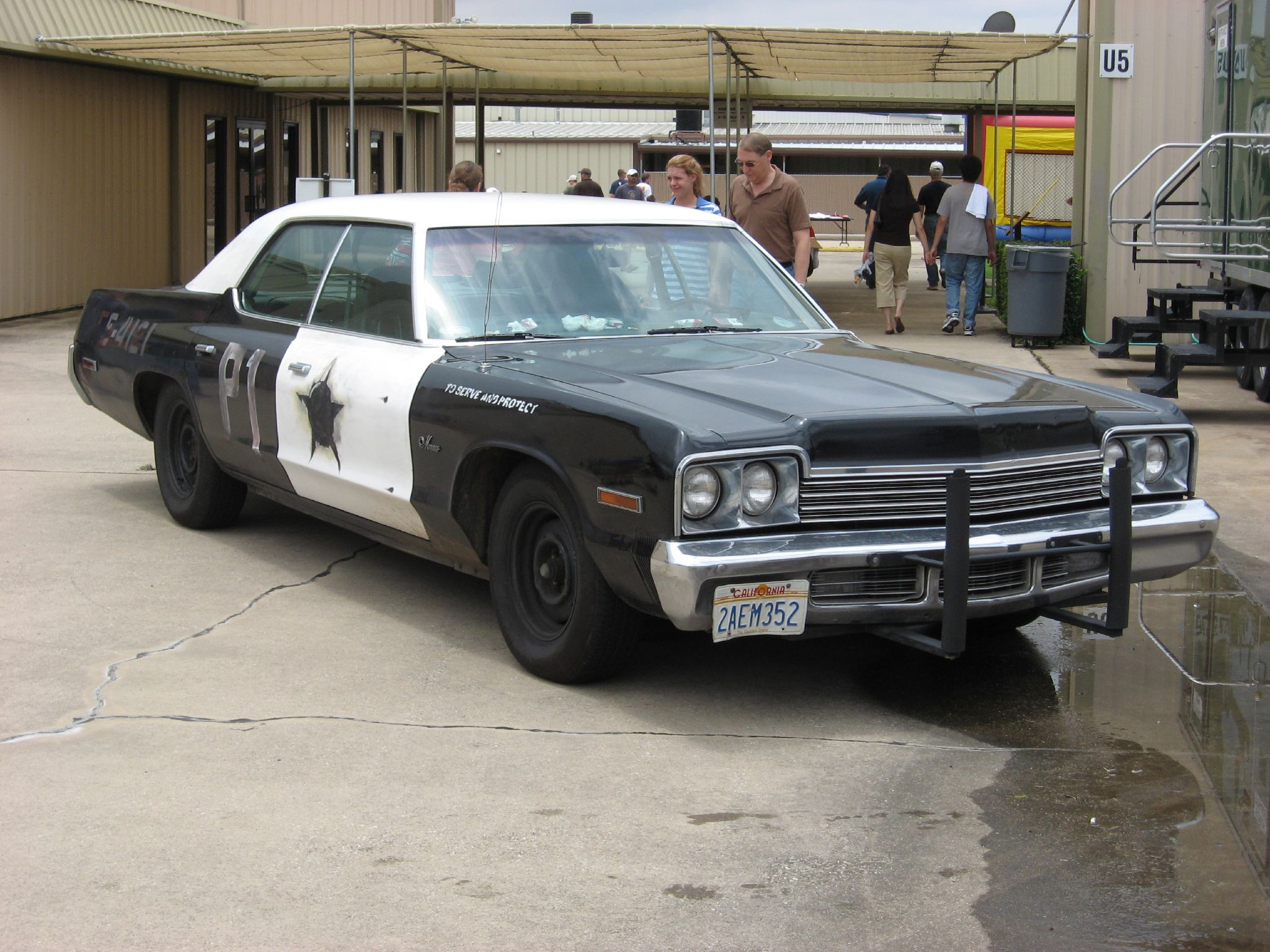 Bluesmobile replica - The Blues Brothers.Bluesmobile